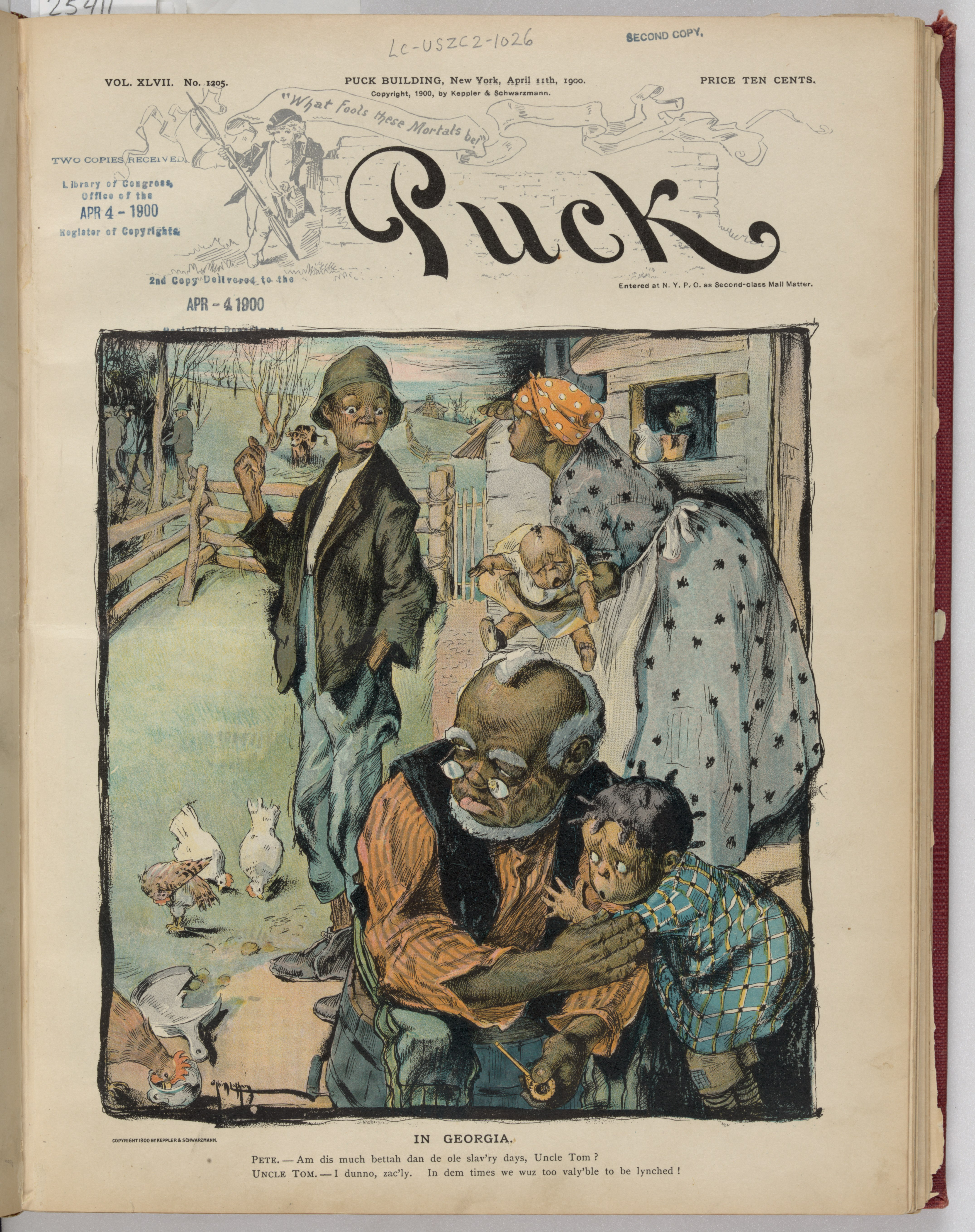 Title: In Georgia / O'Neill Latham. Abstract/medium: 1 print : chromolithograph.